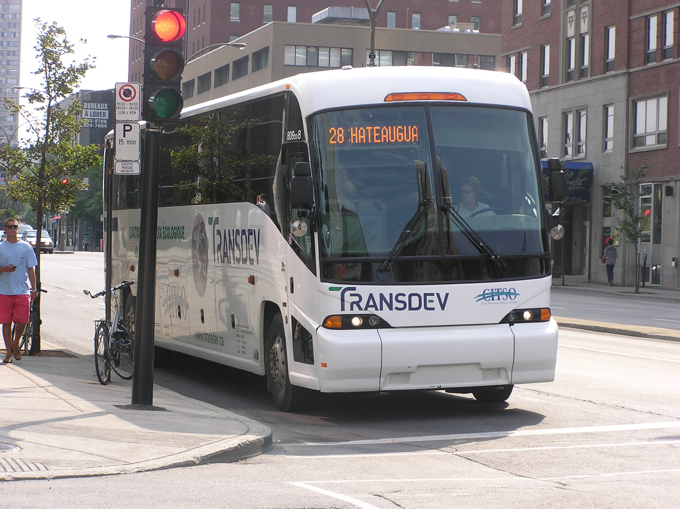 CITSO Bus in Montreal, Canada.